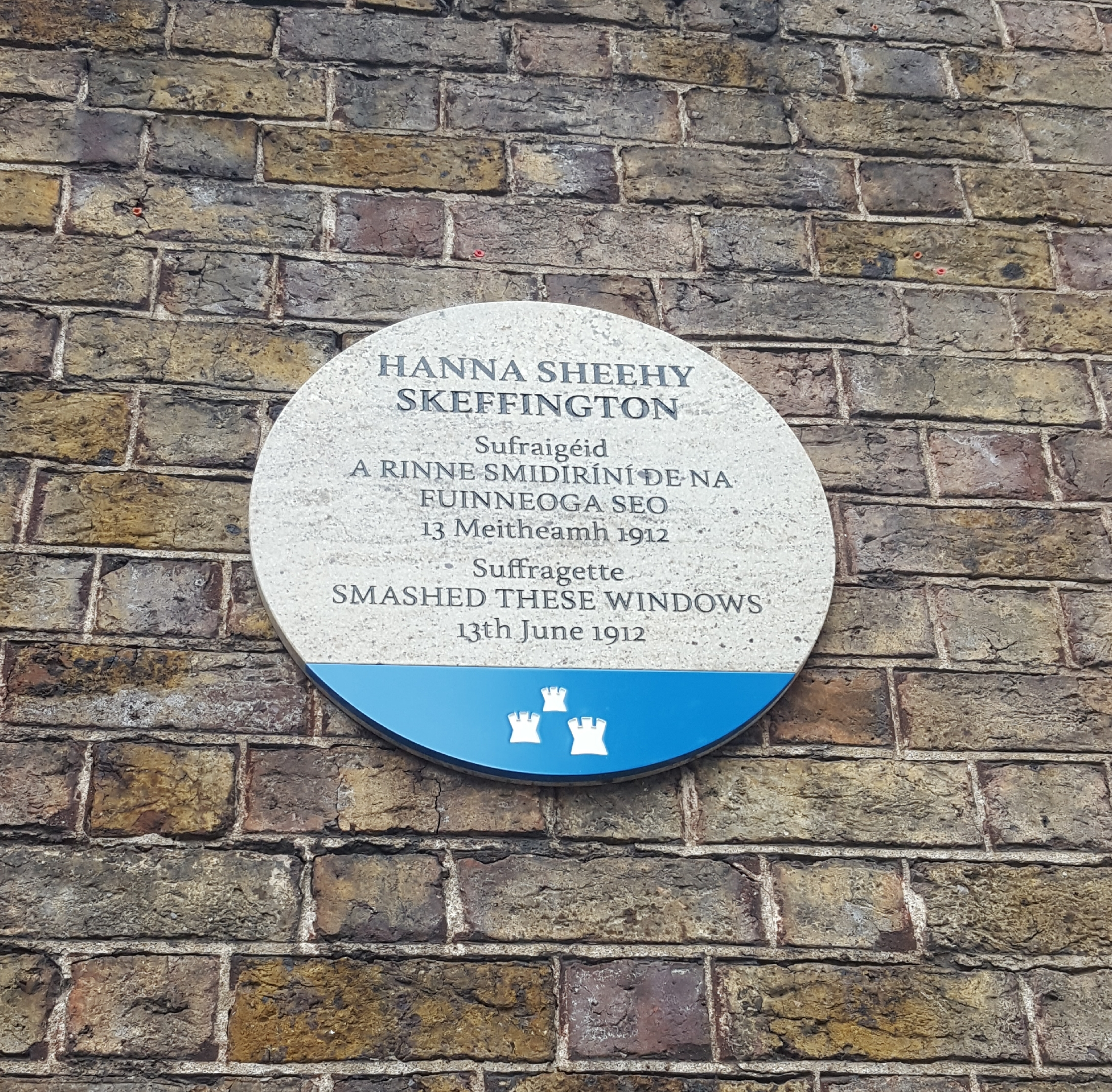 plaque to commemorate Hanna Sheehy Skeffington at Dublin Castle